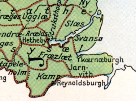 Administrative division of Denmark in Medieval times. The different colors indicate the division in sysler in Jutland while the red lines indicate borders between herreder (hundreds). Dotted red lines indicate newer borders.